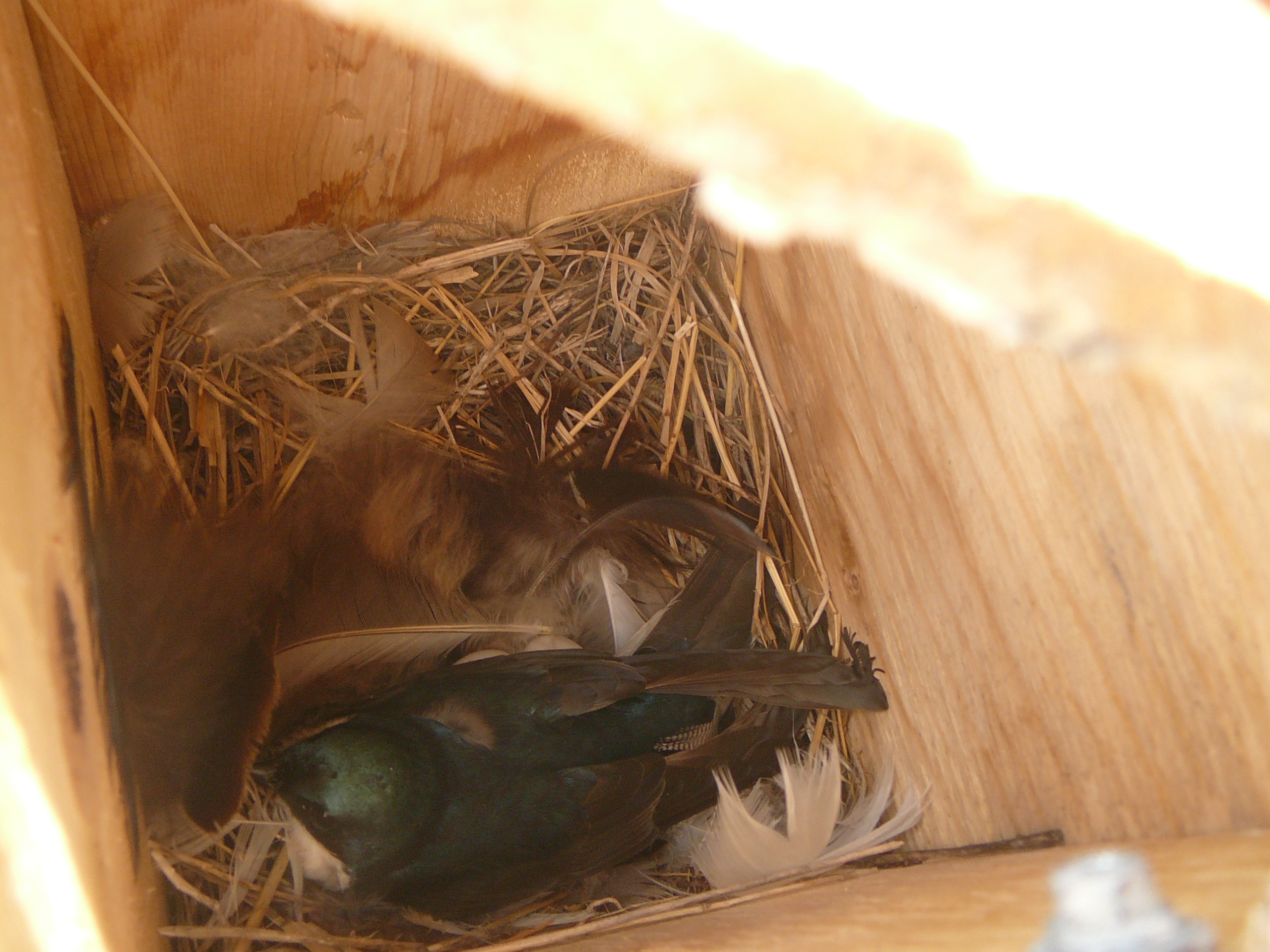 Female tree swallow incubates her clutch. The tree swallow usually lays between 3-5 eggs. The female is very protective of the nest and remains still even after the lid of the nestbox has been opened. A typical tree swallow nest is constructed from bits of grass and feathers. I will use feathers from a nearby turkey farm, and place them nearby. You can also throw feathers into the air and watch the tree swallows swoop down, pick them up, and take them back to the nestbox. This nest site is located in Kinburn, Ontario, Canada. Photo Scott Barton